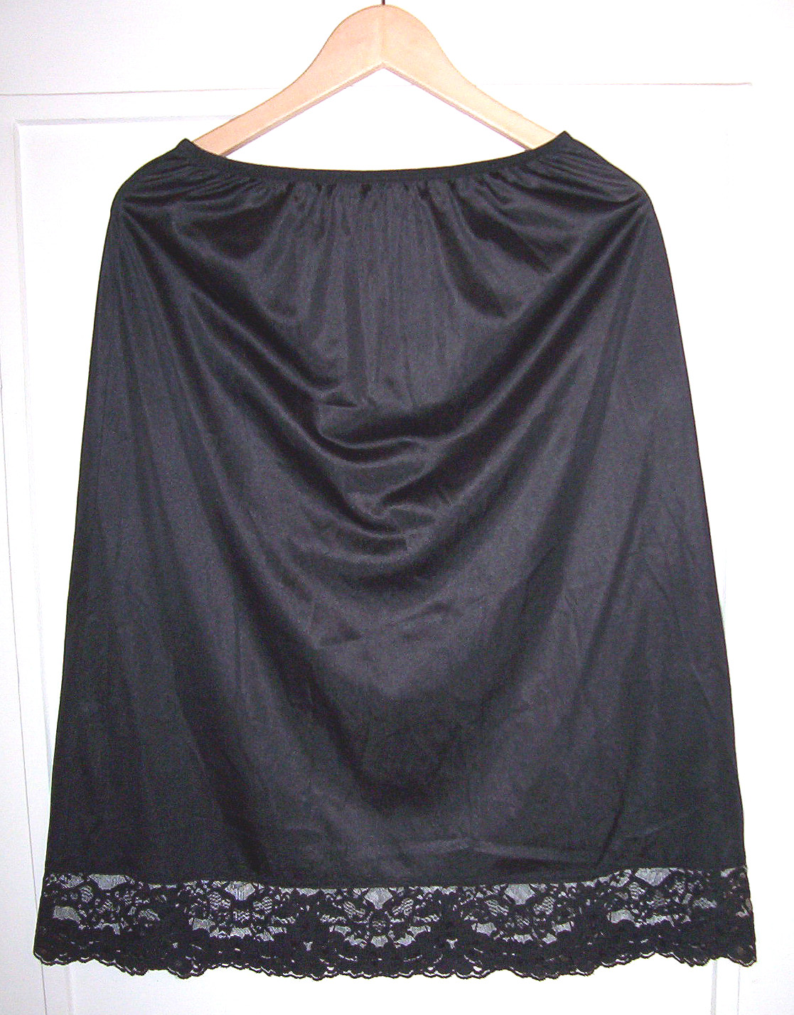 I photographed this slip